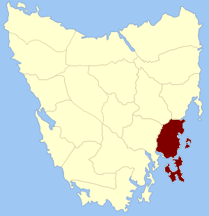 Location of the land district (formerly county) within Tasmania.